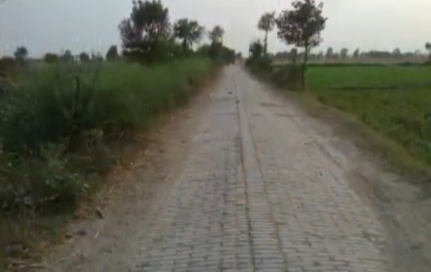 Village scene Dera Bhattian